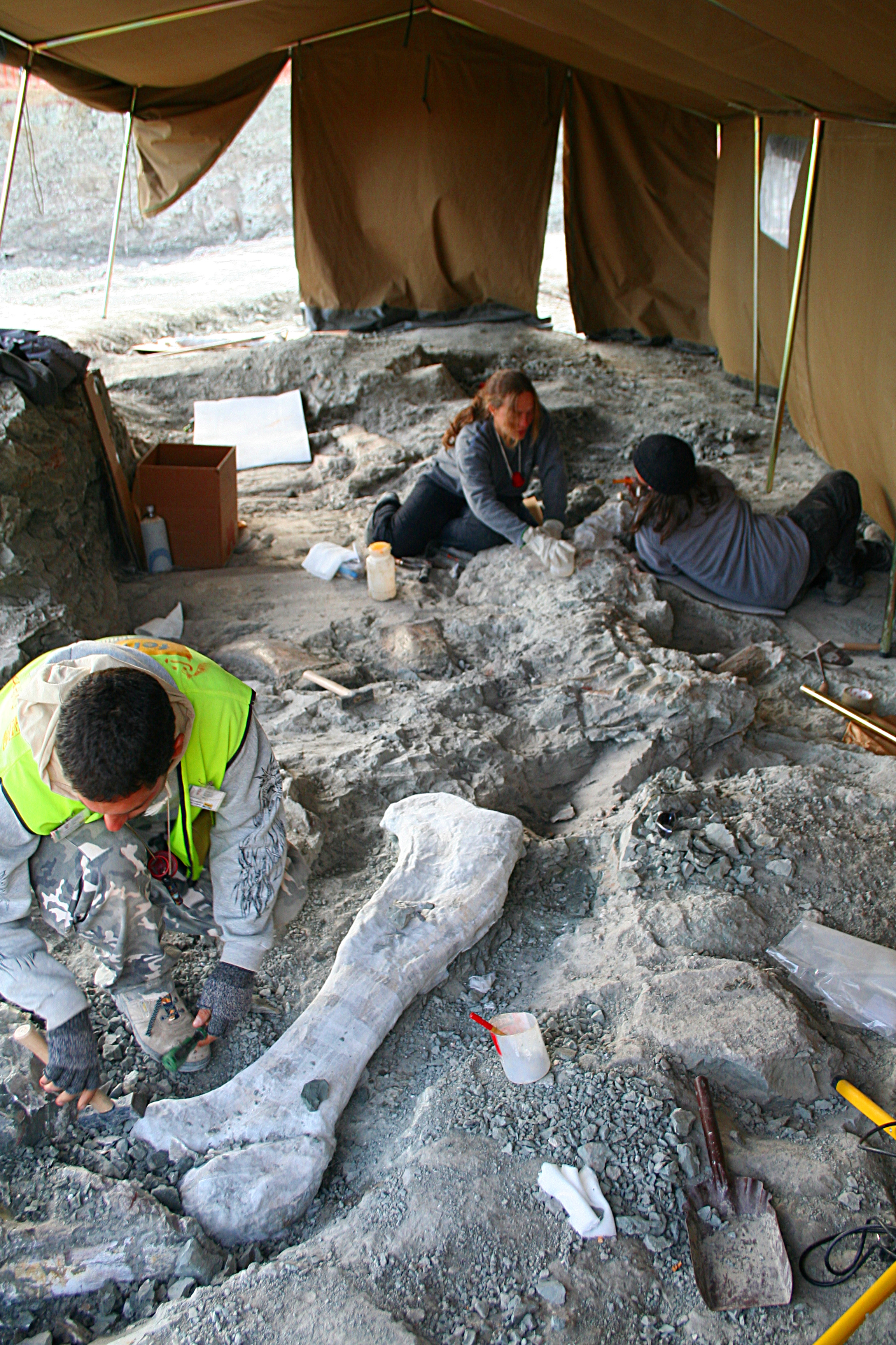 Excavations at the dinosaur site of Lo Hueco (Cuenca, España).